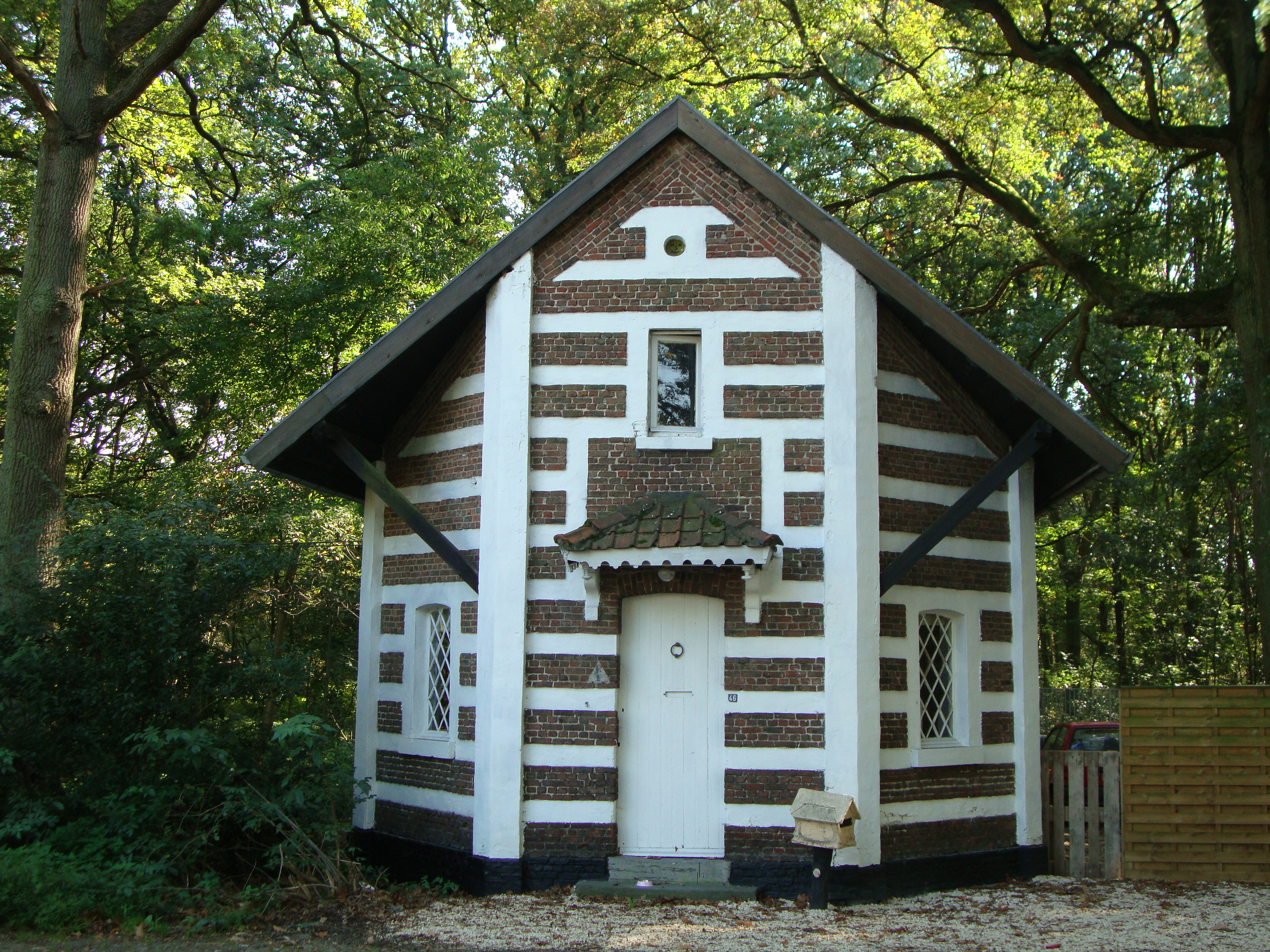 House which was first drawn in the register in 1883